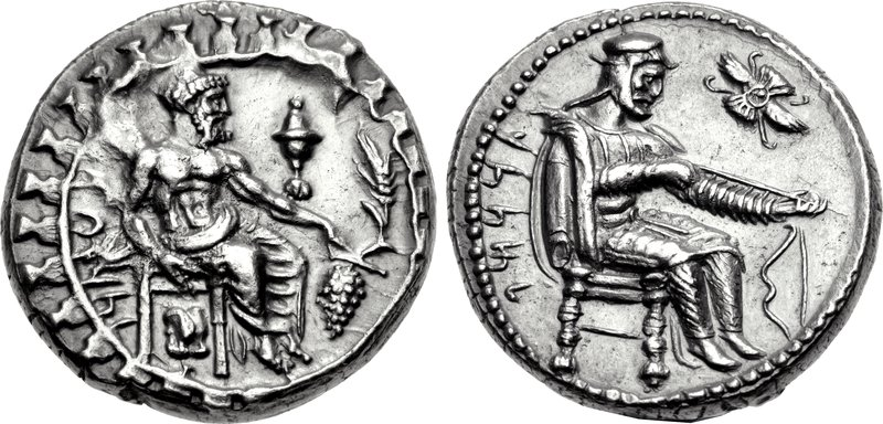 CILICIA, Tarsos. Tarkumuwa (Datames). Satrap of Cilicia and Cappadocia, 384-361/0 BC. AR Stater (22mm, 10.56 g, 6h). Struck circa 375 BC. Baaltars seated right, torso facing, cradling eagle-tipped scepter in right arm, holding grain ear and grape-bunch in extended left hand; ‘Baaltars’ in Aramaic to left, thymiaterion to right, astragalos below throne; all within crenelated wall / Satrap, wearing Persian dress, seated right, inspecting arrow held in both hands; ‘Tarkumuwa’ in Aramaic to left, winged solar disk to upper right, bow to lower right.